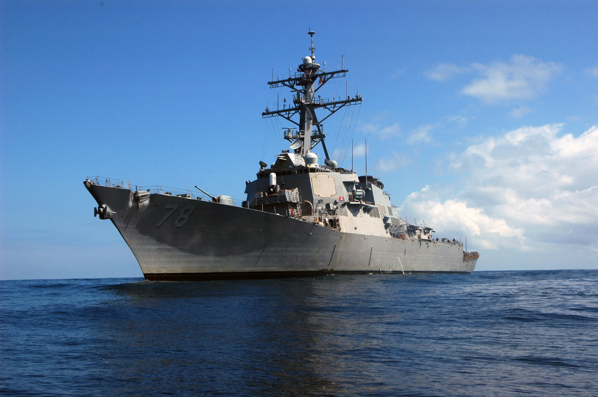 071015-N-4014G-253 INDIAN OCEAN – The guided-missile destroyer USS Porter (DDG 78) stands watch in the Indian Ocean. Porter is conducting Maritime Operations (MO) in the 5th Fleet area of operations with the USS Kearsarge (LHD 3) Expeditionary Strike Group (ESG).